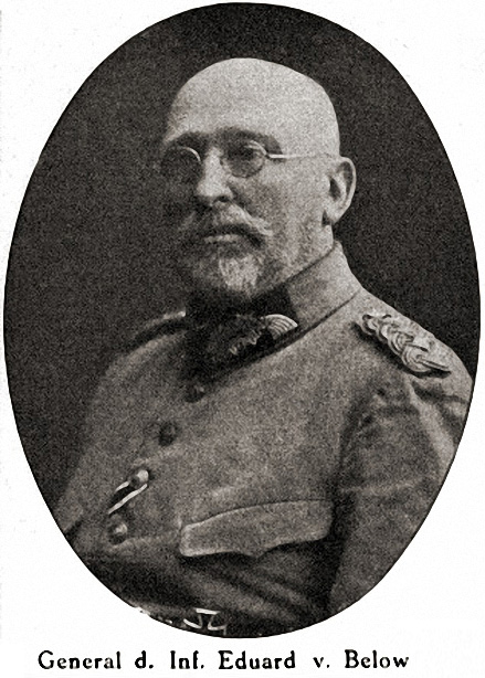 prussain general Eduard Georg Gustav von Below